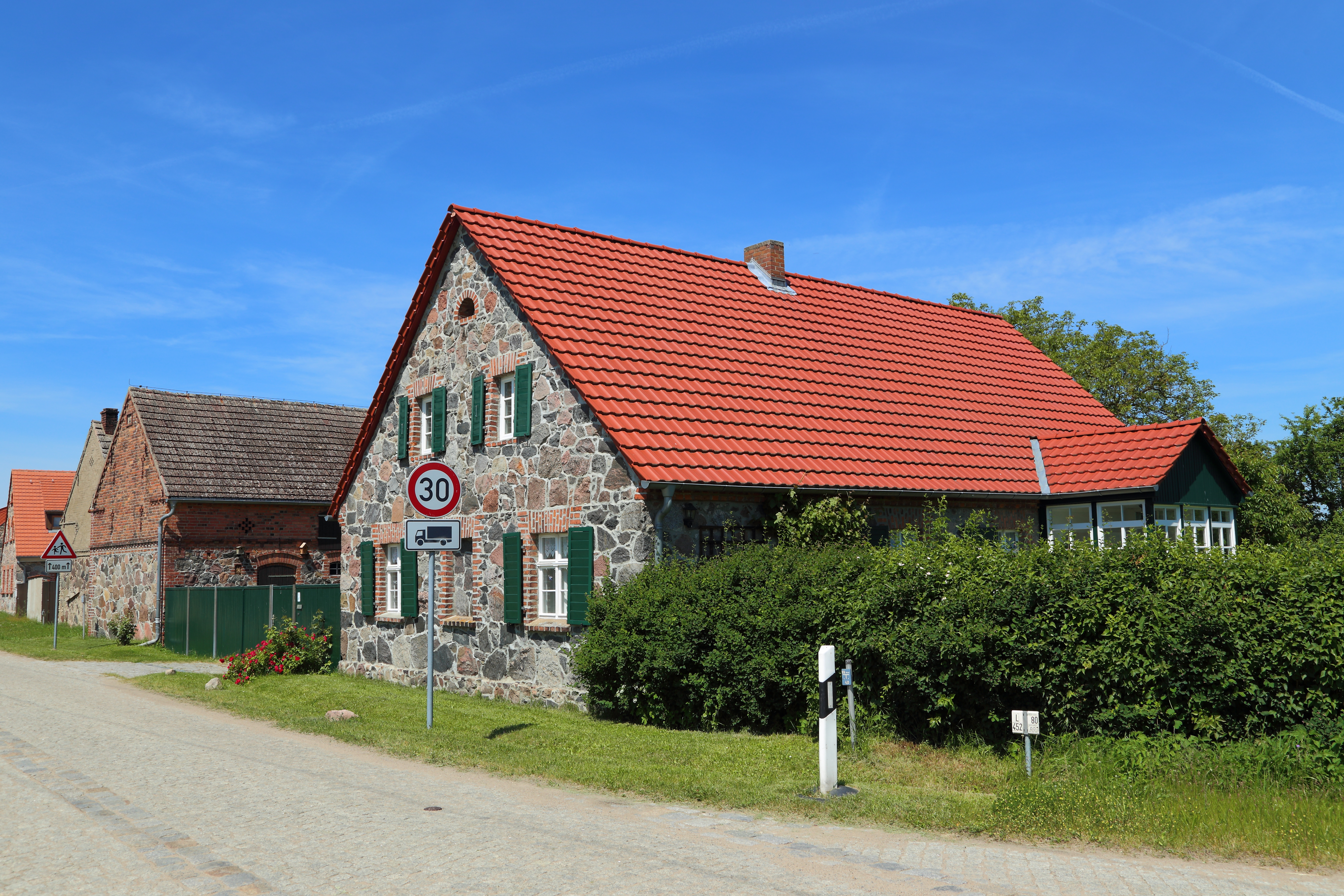 Fieldstone house and farm buildings in Reicherskreuz, district of Schenkendöbern, Landkreis Spree-Neiße, Brandenburg, Germany.